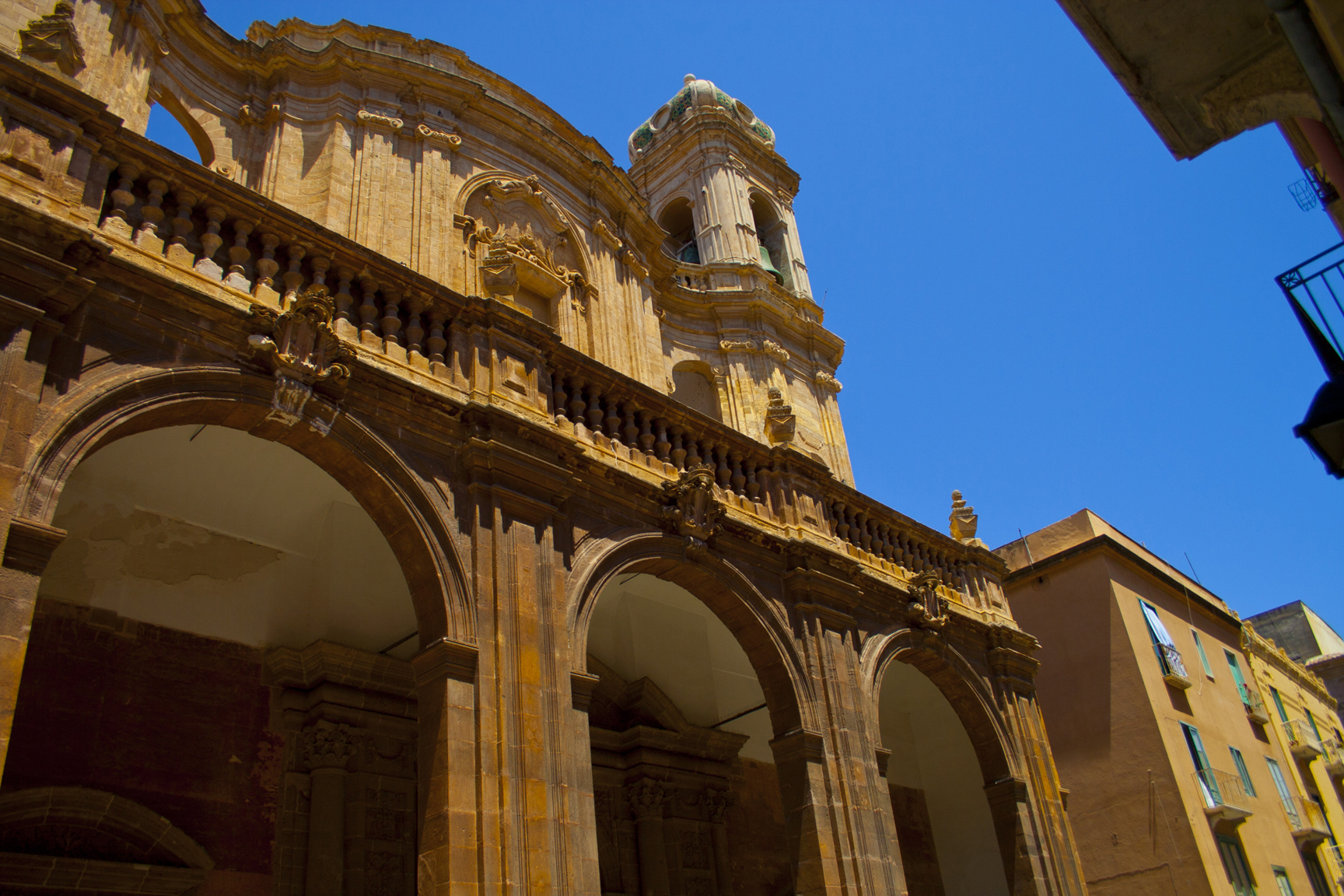 United colors of Sicily 15